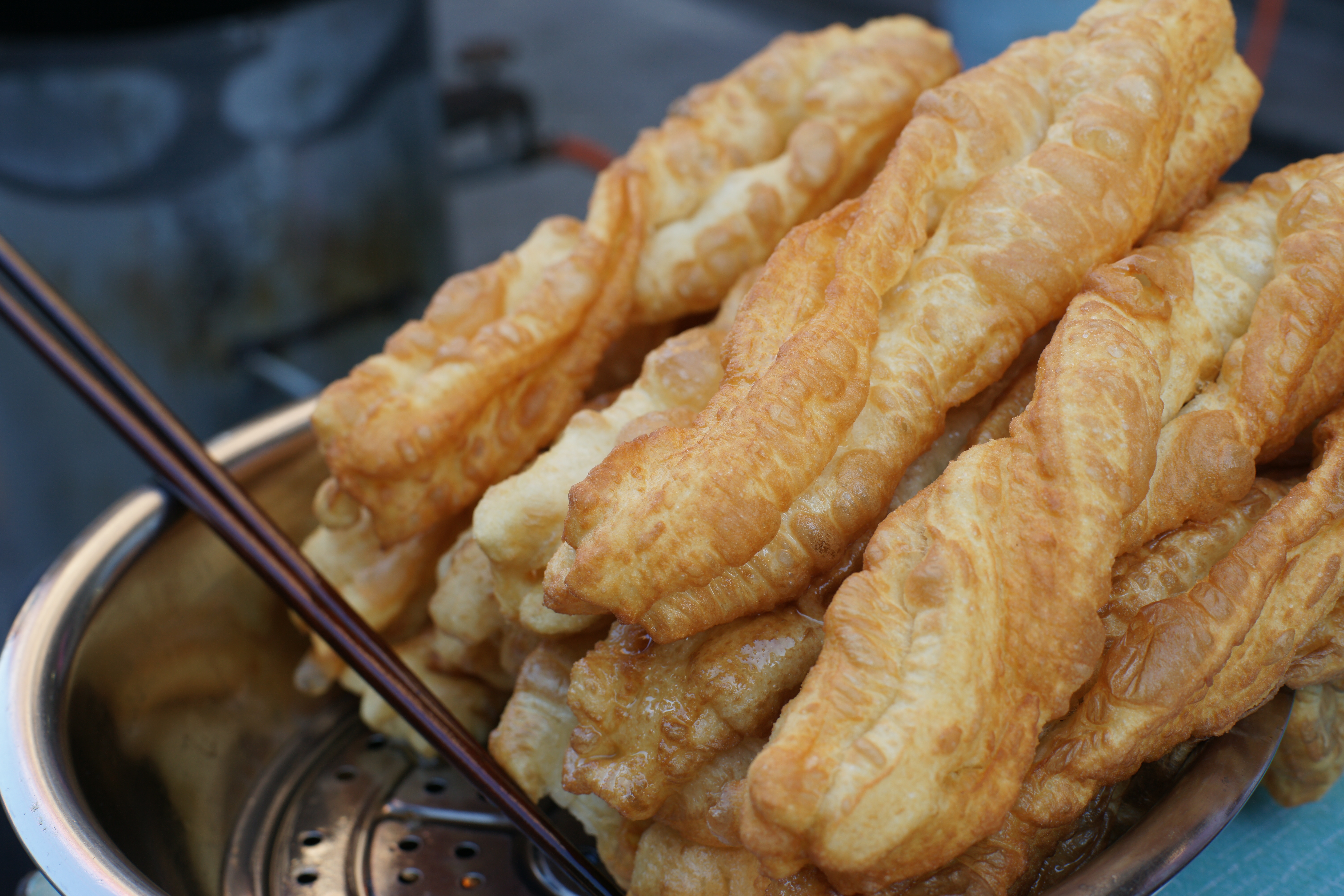 Chinese Youtiao, a type of fried dough commonly found in Northern China.